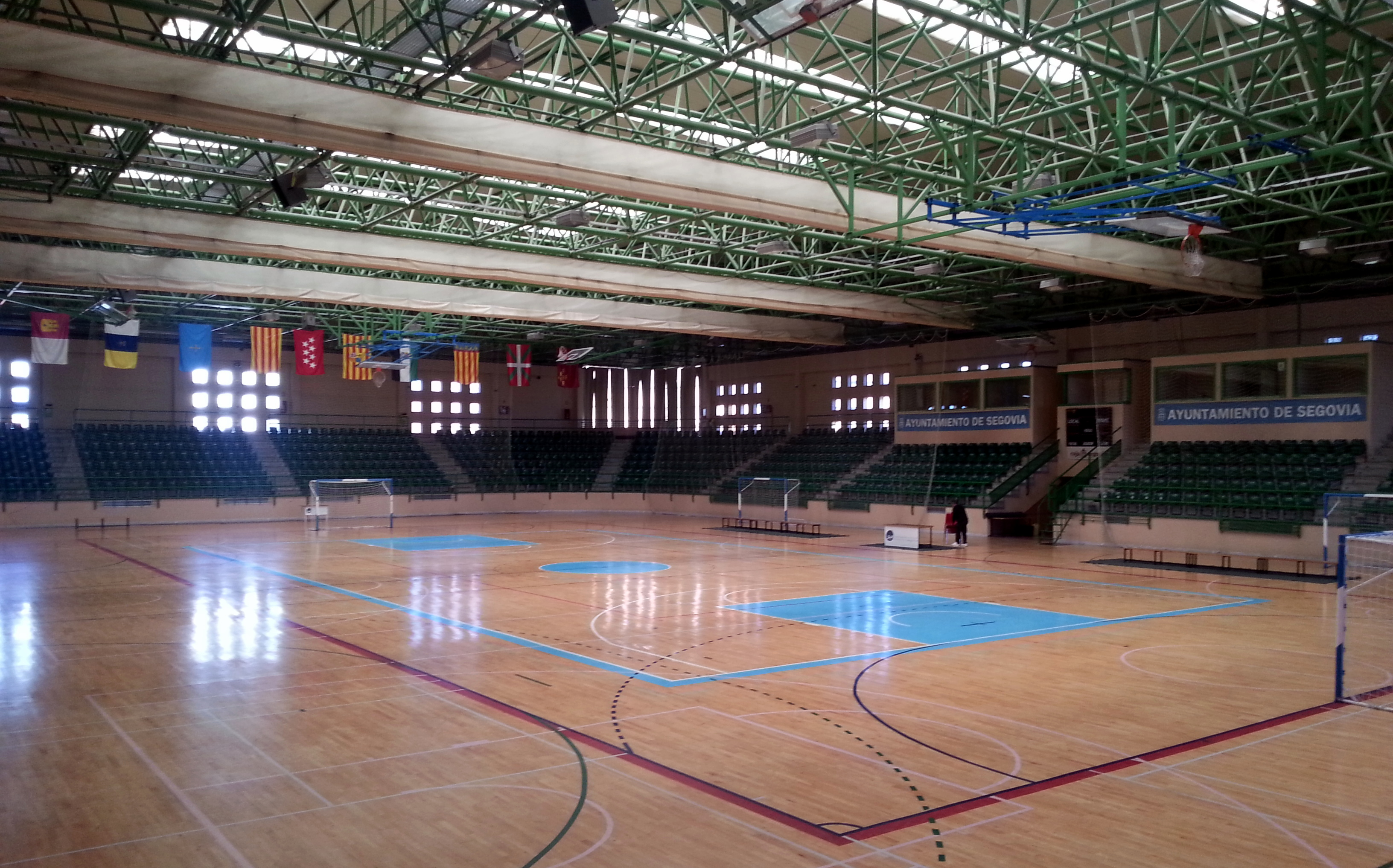 Pabellón Pedro Delgado, Segovia, Spain.